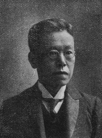 Mr. Yūjirō Motora, professor of the College of Literature at Imperial University of Tokyo and the Tokyo Higher Normal School.